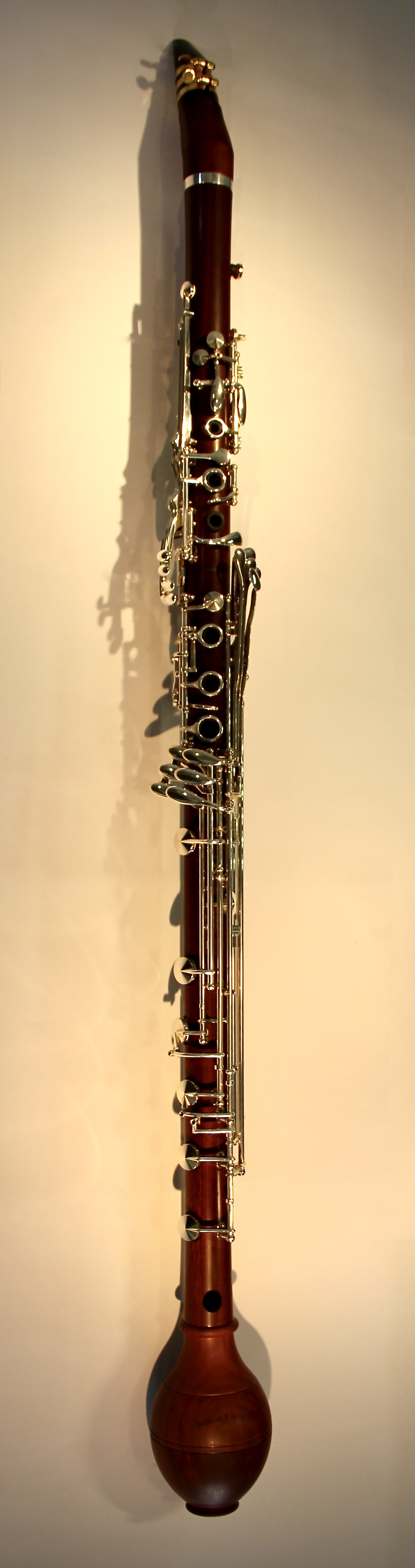 A modern clarinet d'amore in G built by Schwenk & Seggelke in Bamberg, commissioned by Richard Haynes